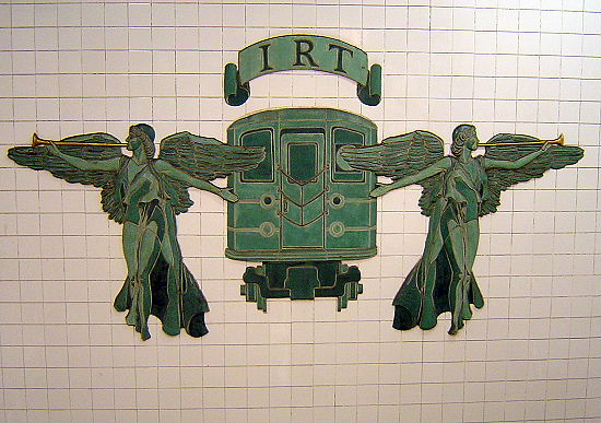 IRT decoration at the Grand Army Plaza 2, 3 stop